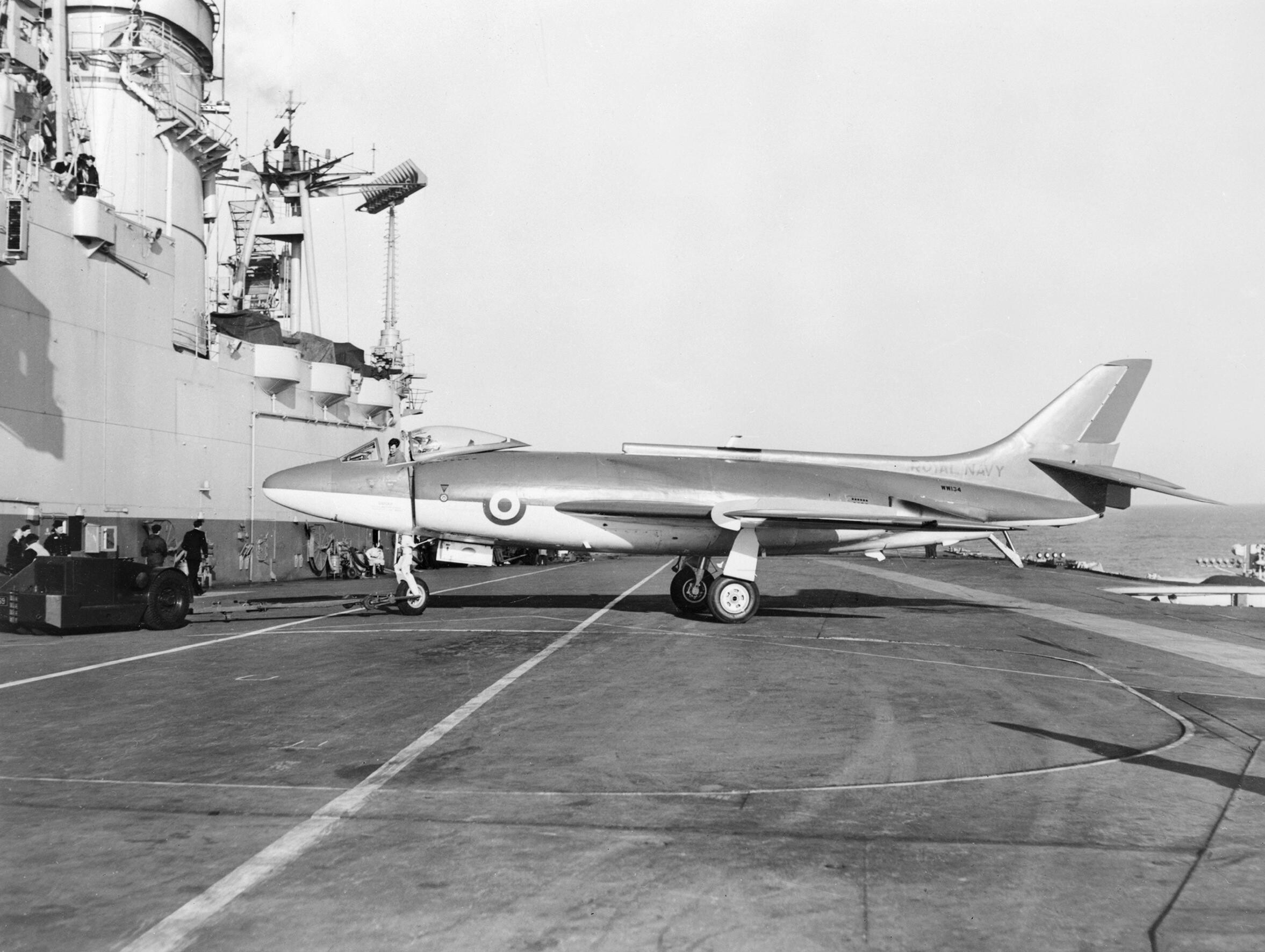 The third pre-production Supermarine 544 Scimitar (s/n WW134) being manoeuvred on the flight deck of the Royal Navy aircraft carrier HMS Ark Royal (R09) during carrier trials in the English Channel, 6 January 1957. This aircraft first flew in 1956 and was deliberately launched without a pilot off HMS Centaur (R06) as part of trials off Toulon, France, in the Mediterranean Sea on 24 October 1962.